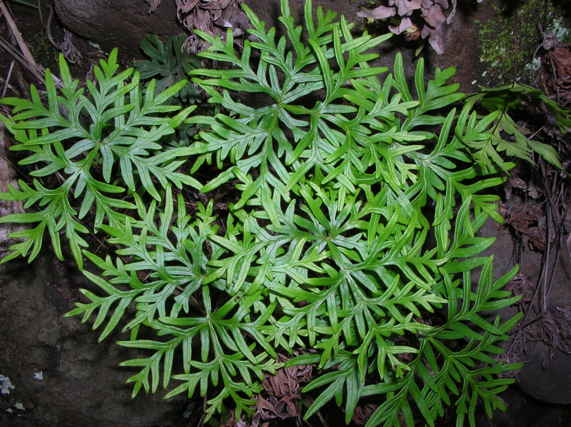 Doryopteris decipiens (habit). Location: Maui, Lihau